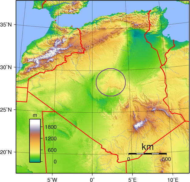 Map of Algeria showing the location of the Tademaït Plateau. [Based on Algeria Topography